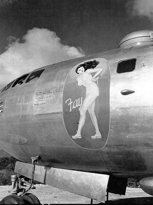 Boeing B-29 Superfortress "Fay" Martin-Omaha B-29-5-MO Superfortress s/n 42-65210, 874th BS, 498th BG, 20th AF. Lost on the March 25,1945 mission to Nagoya,Japan. Aircraft took-off for night mission and was never heard from again, but was believed to have went down in the target area. MACR 13447